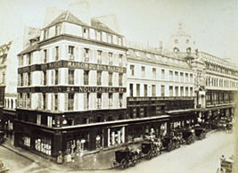 Bon Marché store ca. 1867. (source)